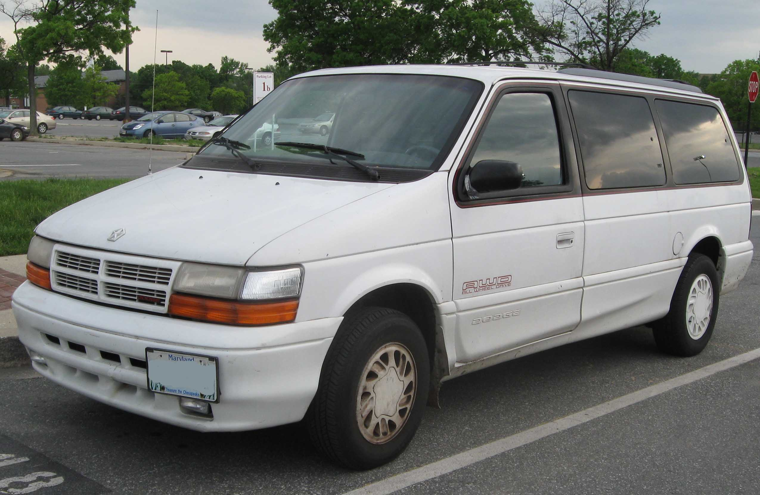 1991-1995 Dodge Grand Caravan photographed in College Park, Maryland, USA.